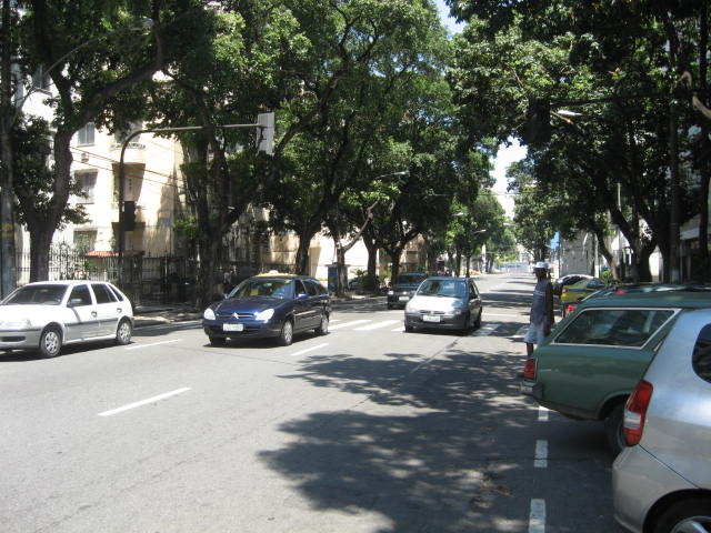 Conde de Bonfim street, Rio de Janeiro city, Brazil.